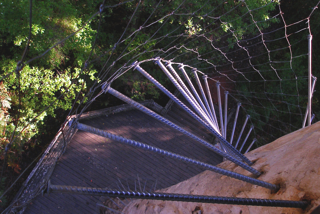 Warren National Park, Western Australia, Bicentennial Karri Tree (Eucalyptus diversicolor) looking down from first platform